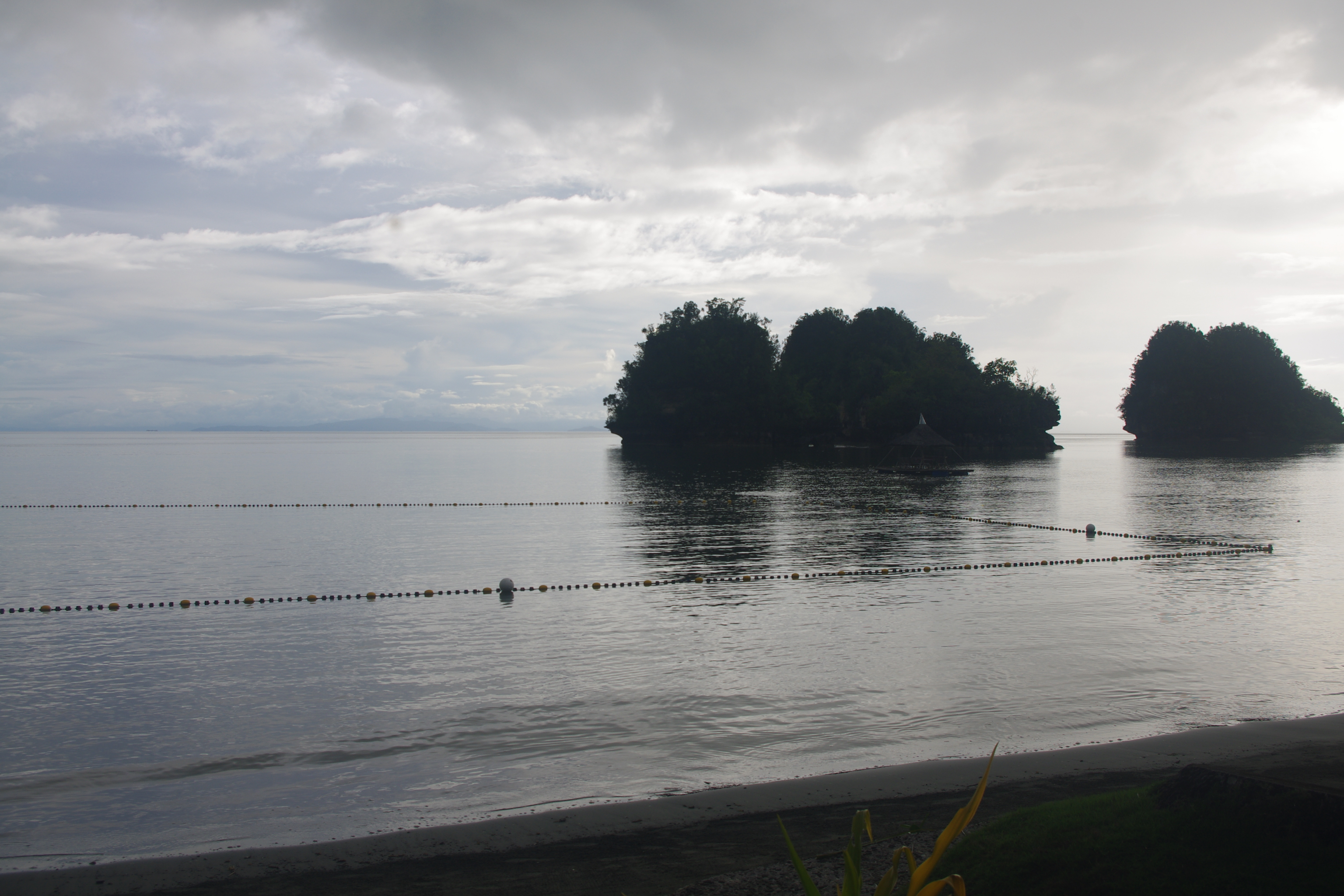 Beach in Marabut in Samar, Philippines; picture taken 12 March 2017